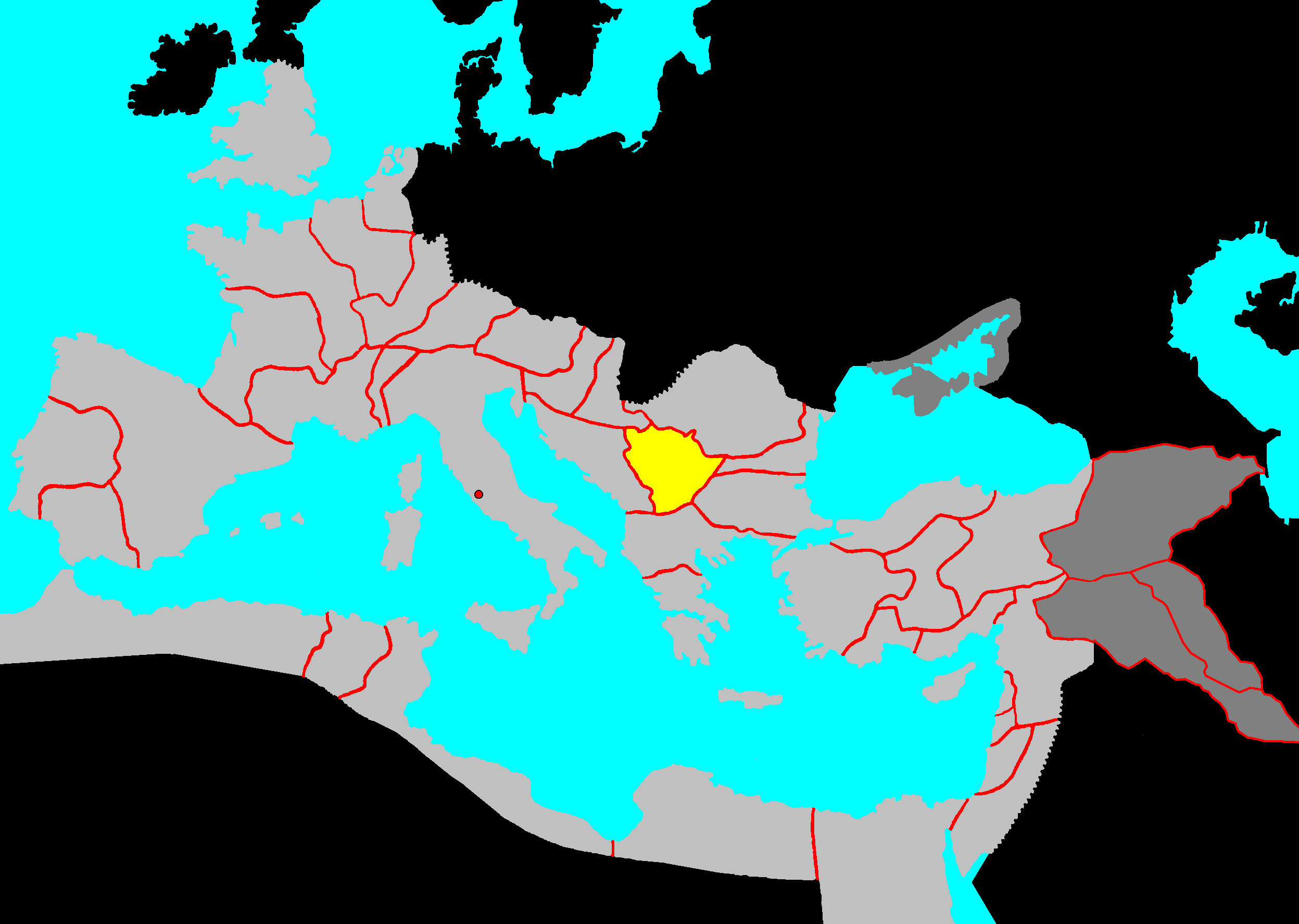 Description: provinces of the Roman Empire (Imperium Romanum) Source: own work Date: December 2005 Author: --Immanuel Giel 12:55, 13 December 2005 (UTC) Other versions: none